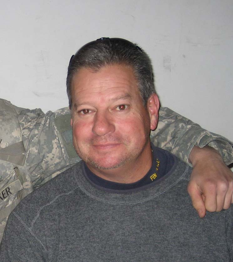 Former football star Kevin Butler during the “Ringing in the New Year” celebrity tour at Forward Operating Base Loyalty in east Baghdad Dec. 31. Both players were part of the 1985 Super Bowl Champion Chicago Bears.